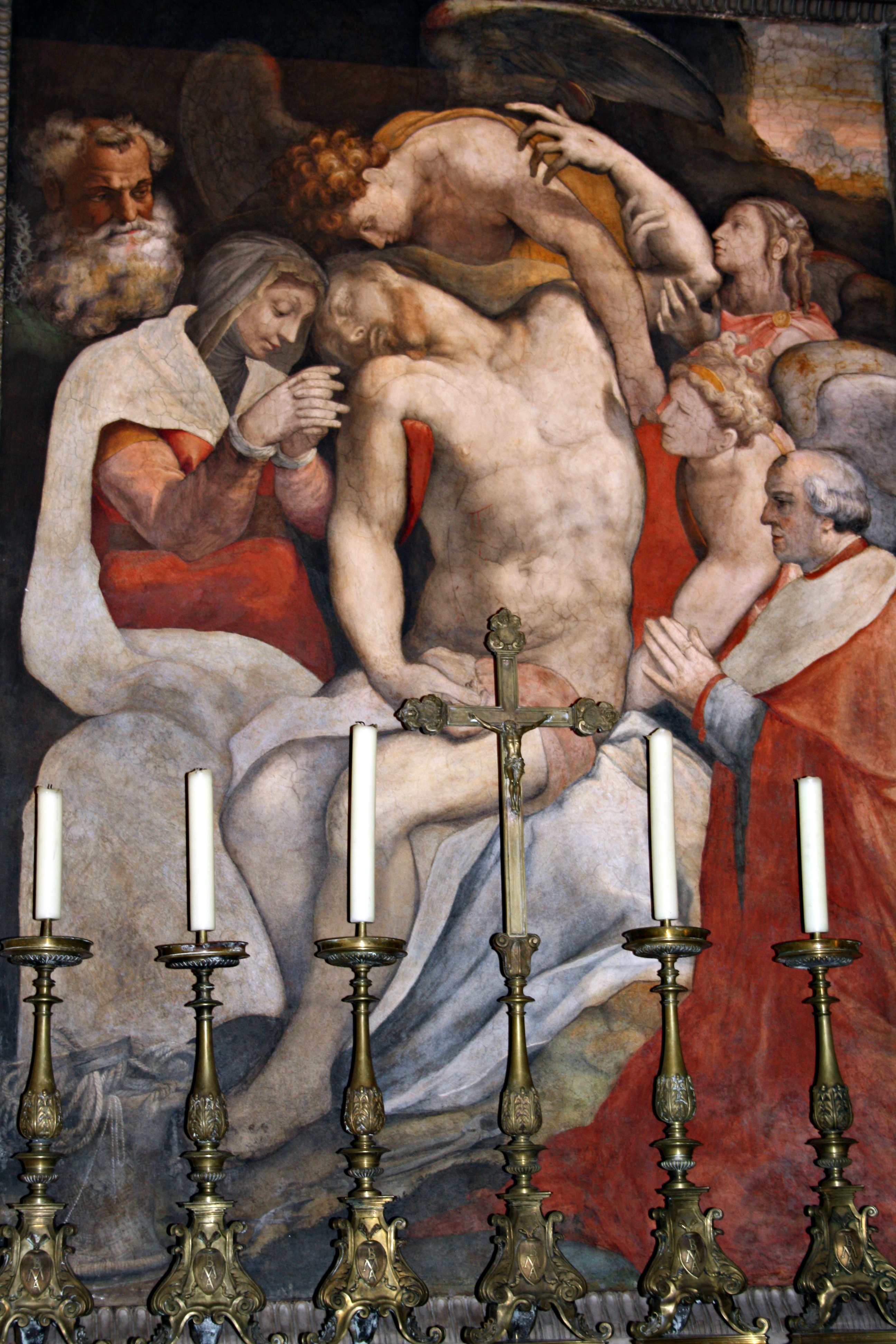 Deposition from the Cross by Francesco Salviati in Santa Maria dell'Anima, Rome